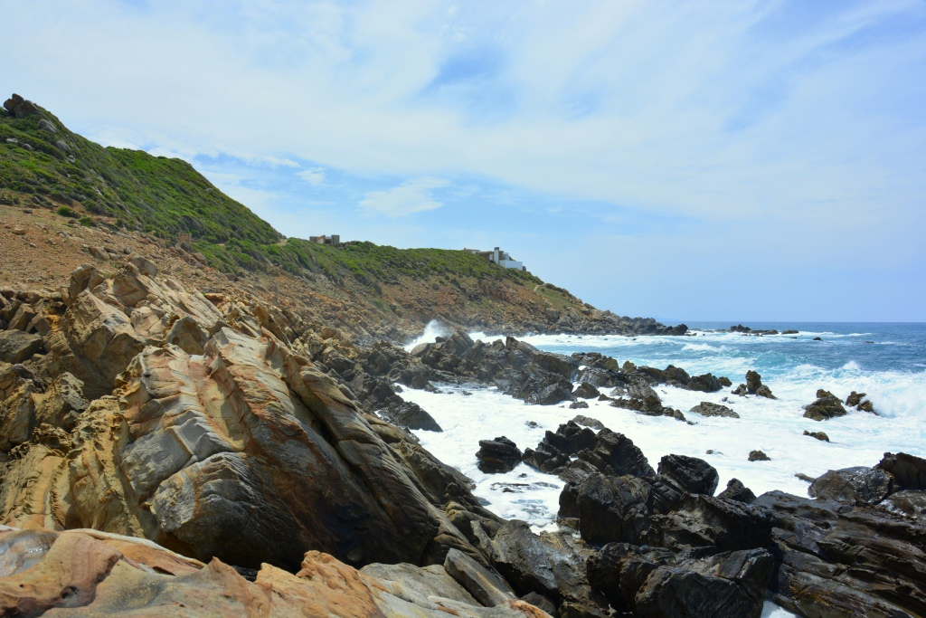 The coast, the rocky beach and waves.